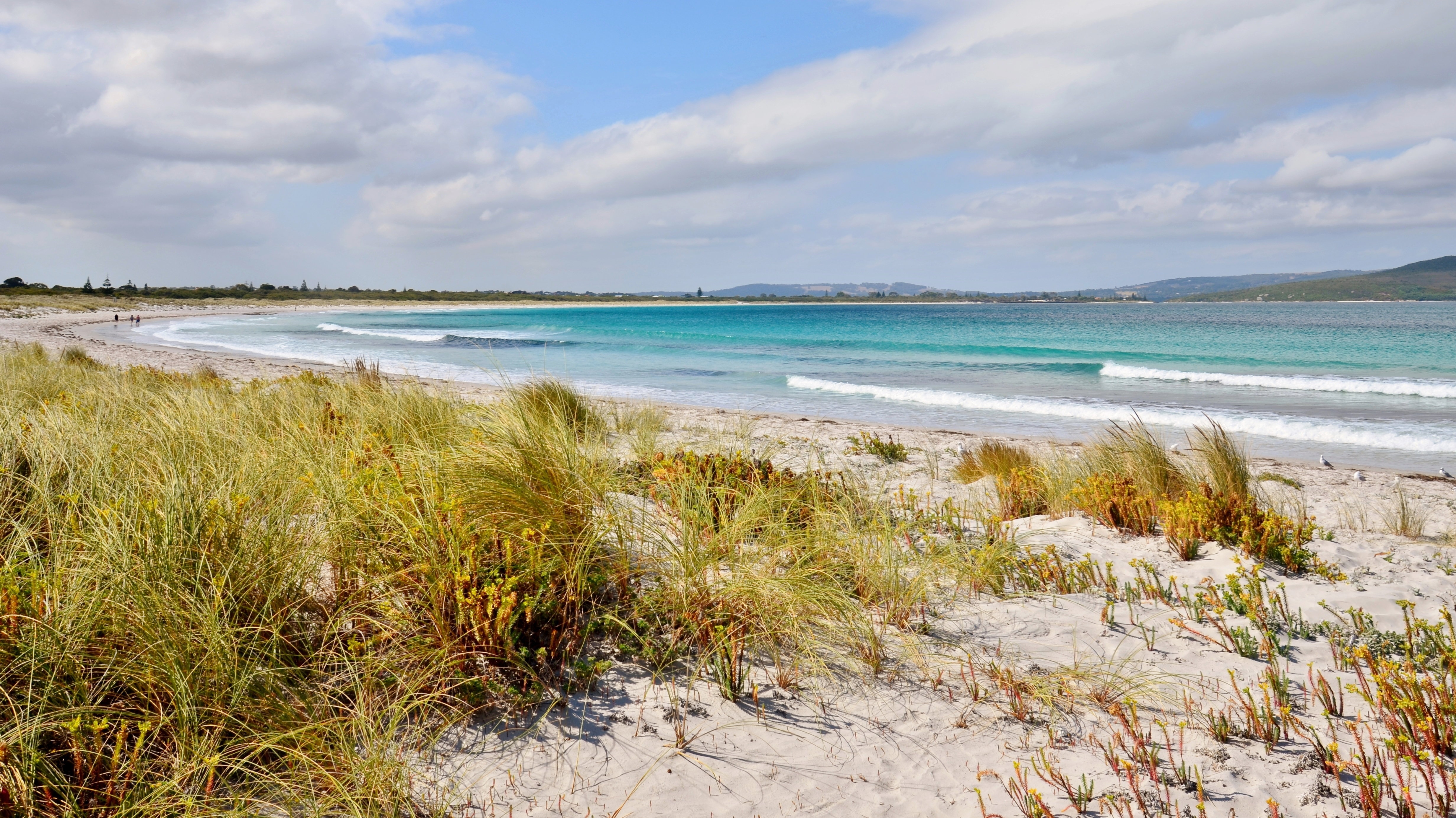 View of Middleton Beach, Western Australia, looking towards Emu Point